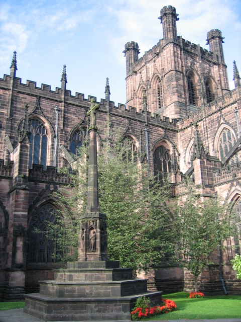 War Memorial at Chester Cathedral. This war memorial, in the precincts of Chester Cathedral, was erected after 'The Great War'. A third tier stone on the face to the left of the camera was subsequently carved with the dates 1939-1945. The cathedral and bell tower are seen behind the memorial, although in 1975 the bells were moved to a new detached bell tower. The south door is just to the left of the memorial - see 556764.